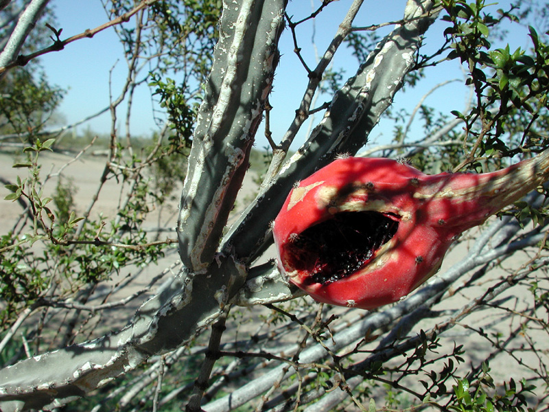 Peniocereus greggii with fruit splitting open to reveal sticky seeds in a sweet pulp. Gila Bend Mountains, Maricopa County, Arizona.(view through leaves of Creosote bush, Larrea tridentata.)